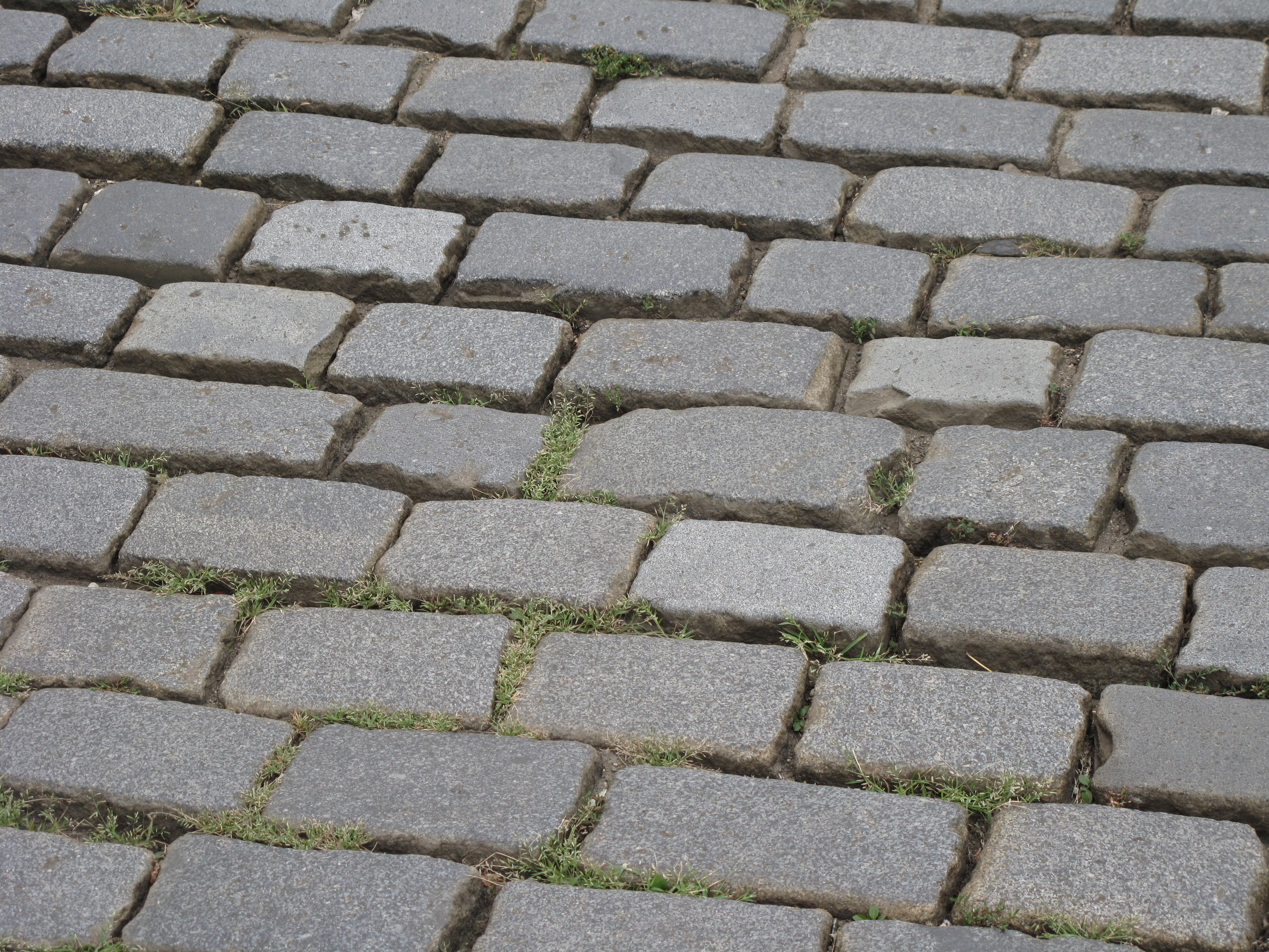 Pitching at the crossroad of Bělehradská, Bruselská, Koubkova and Šafaříkova Street, Prague - Vinohrady, Czech Republic.